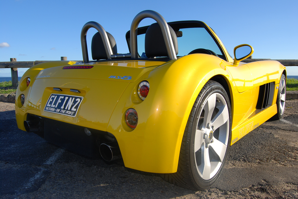 Tom Reynolds, en